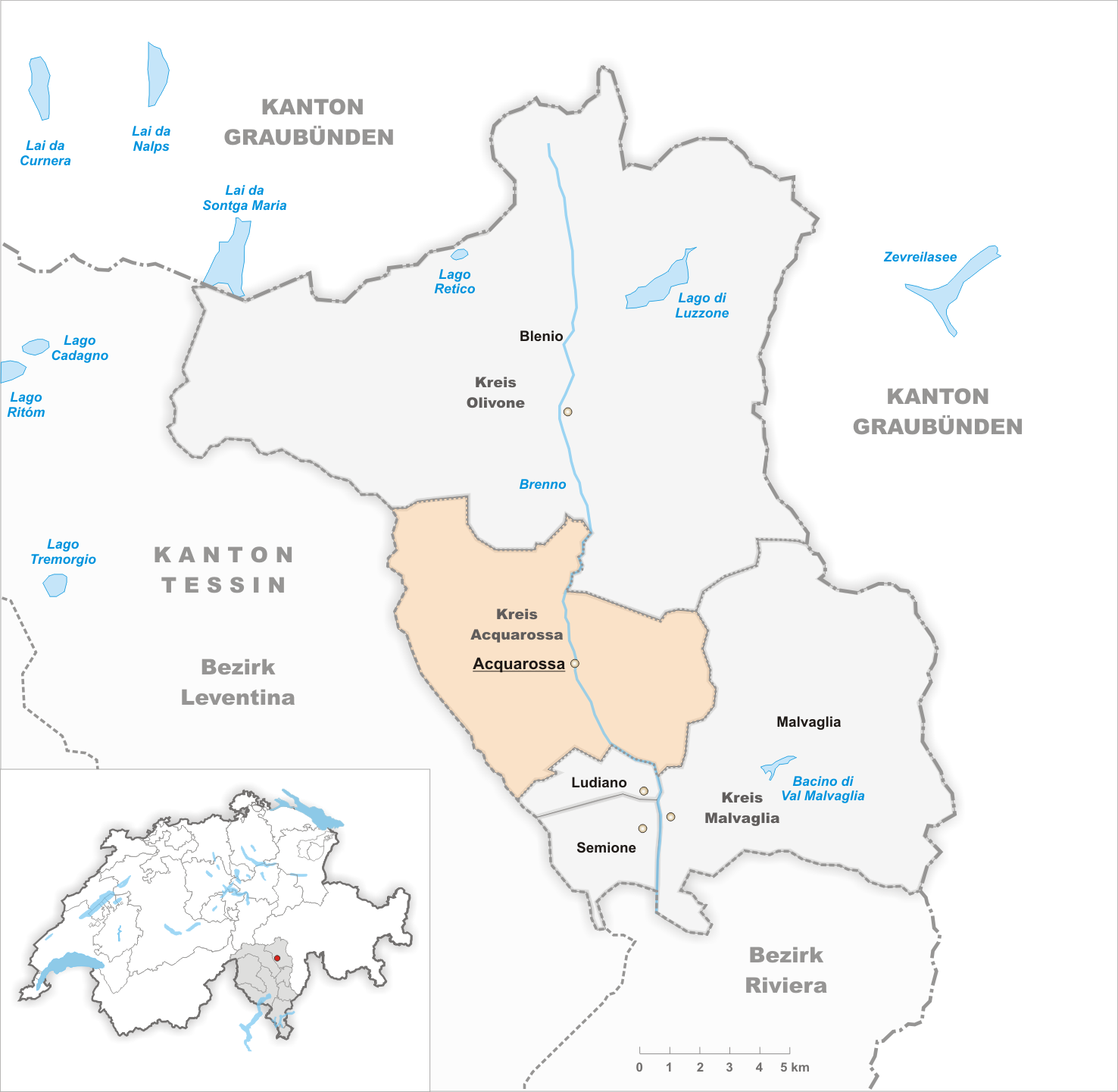 Municipality Acquarossa